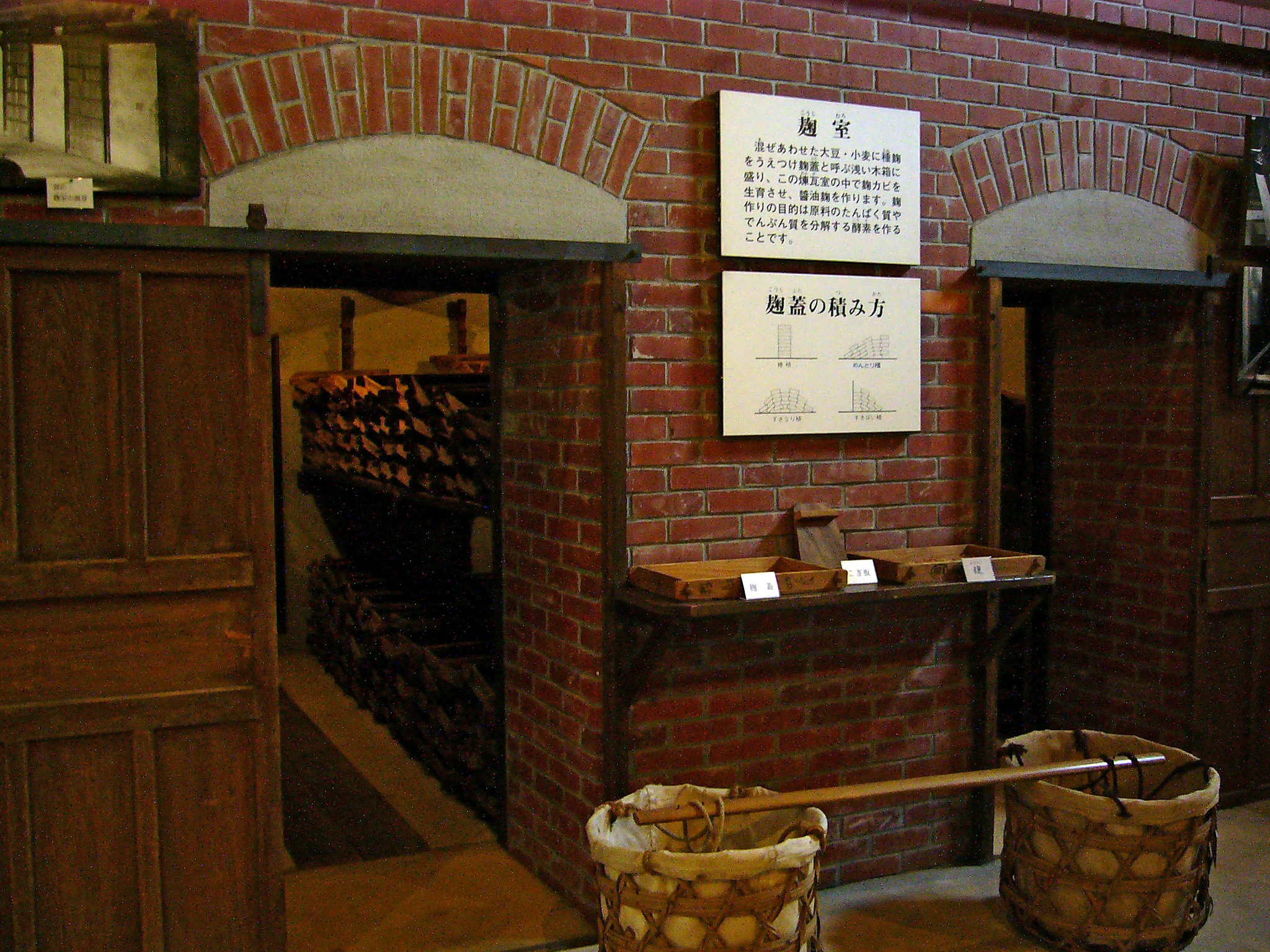 Usukuchi-Tatsuno-Shoyu Museum in Tatsuno, Hyogo prefecture, Japan